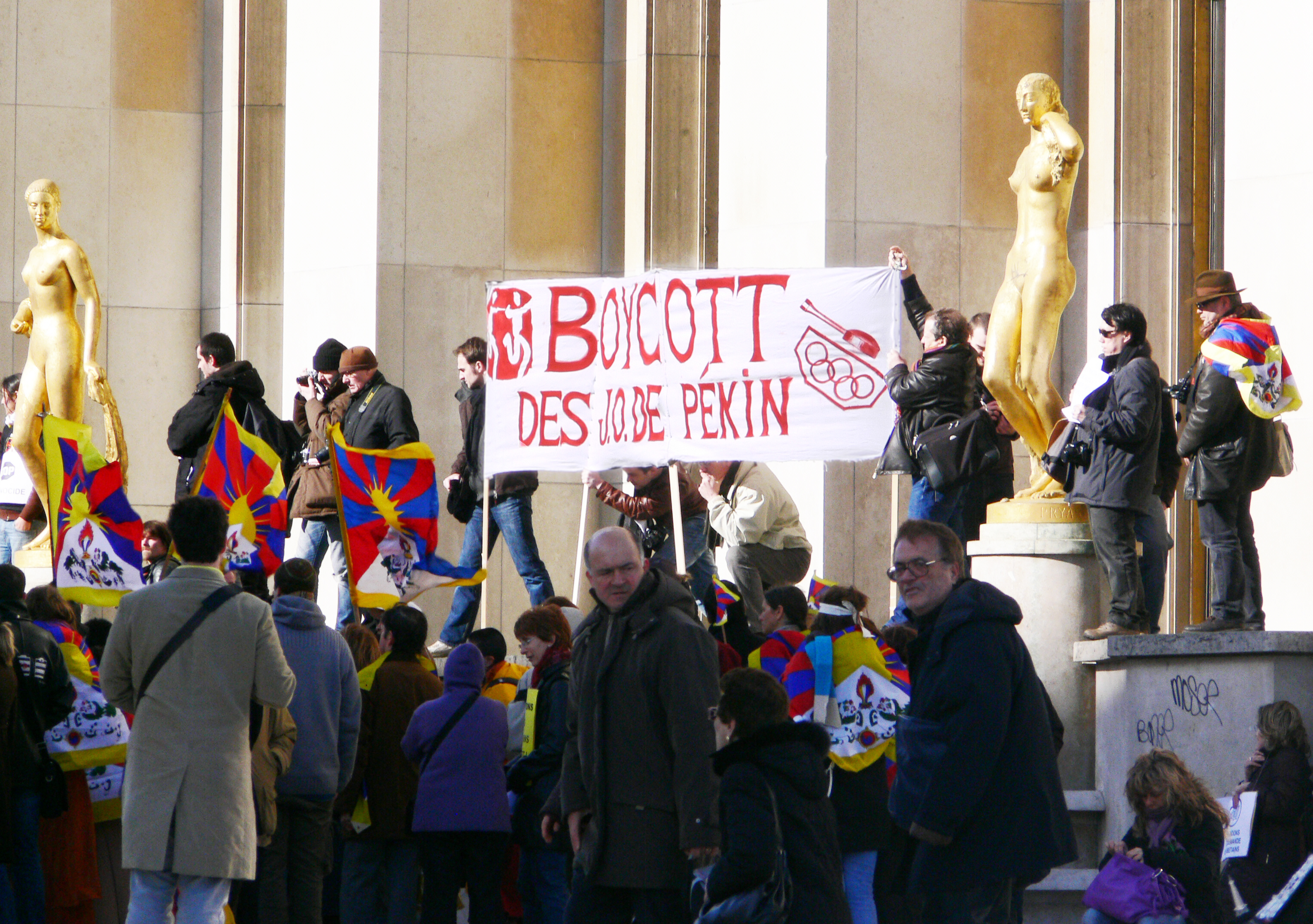 Demonstration against Chinese politics in Tibet (and for a boycott of the 2008 Olympic Games in Beijing), Palais de Chaillot, Paris